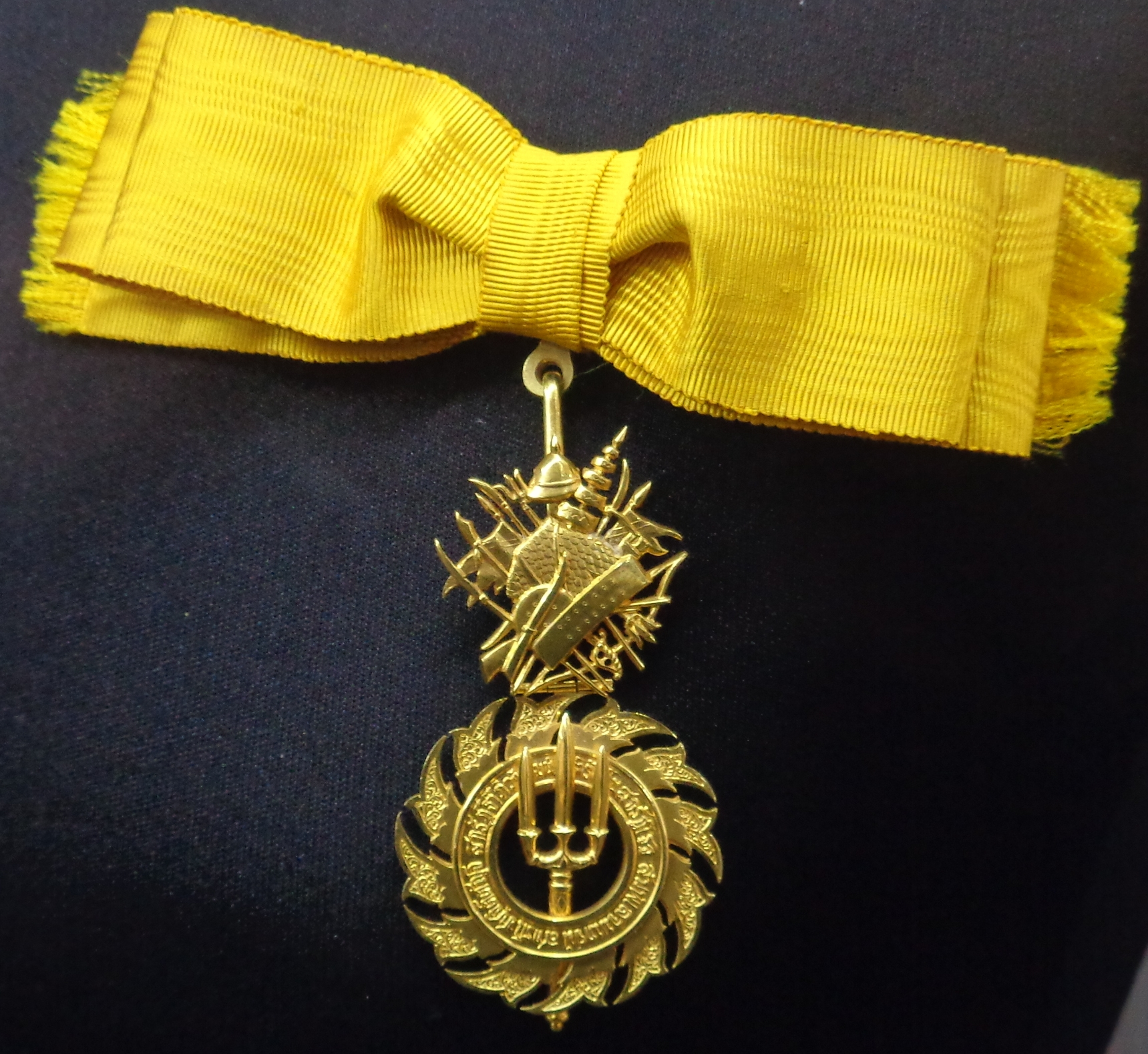 Order of the Royal House of Chakri, badge for Ladies, 1950-1960. Thailand. The exhibition of the Tallinn Museum of Orders of Knighthood, Estonia.